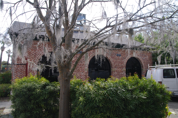 The old firehouse on Beaufort's Scotts Street has been several businesses over the past few years.